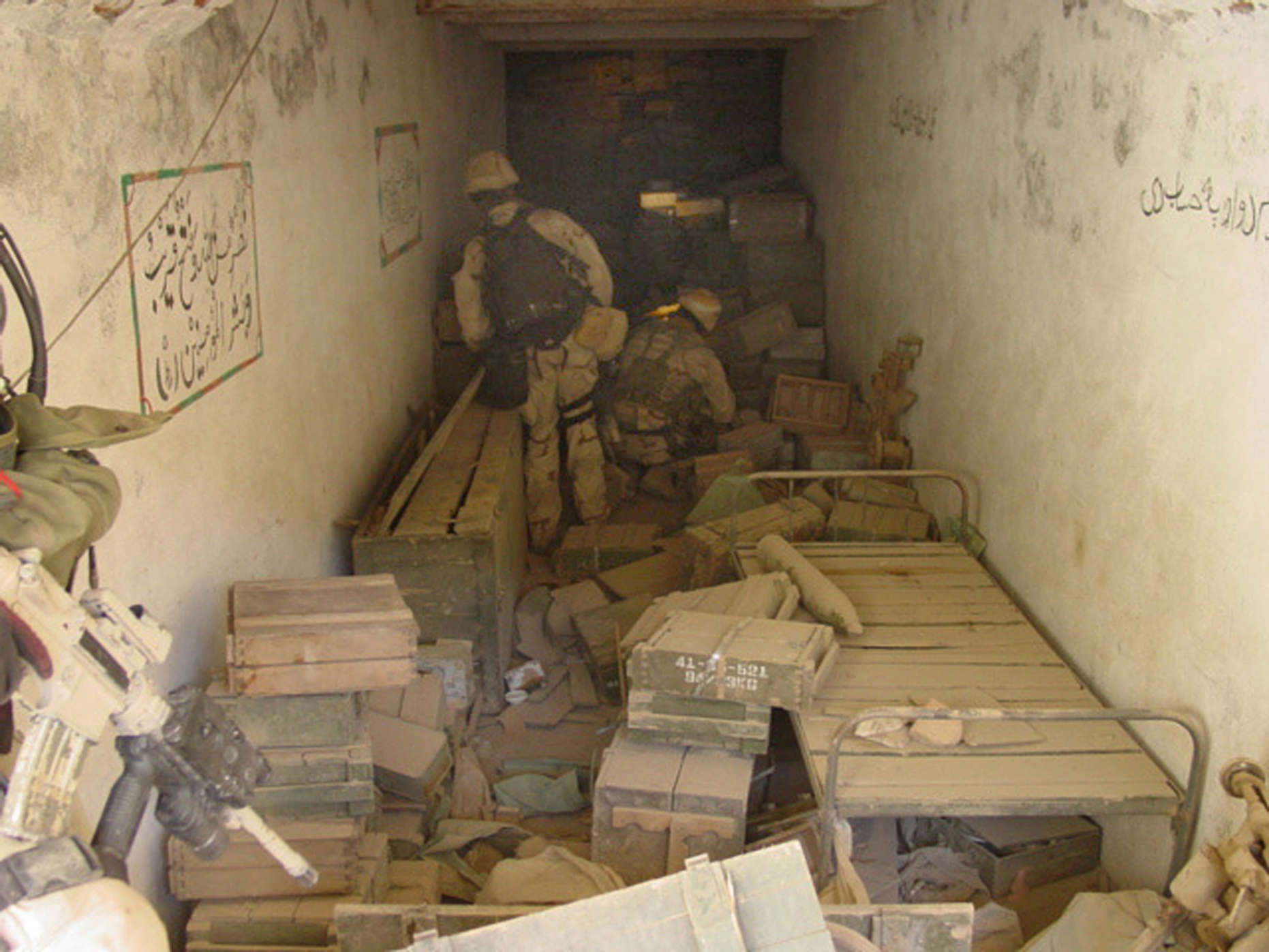 020114-N-8242C-004 Eastern Afghanistan (Jan. 14, 2002) -- During a search and destroy mission, U.S. Navy SEALs discover a large cache of munitions in one of more than 50 caves explored in the Zhawar Kili area. Used by al-Qaida and Taliban forces, the caves and above-ground complexes were subsequently destroyed through air strikes called in by the SEALs. Navy special operations forces are conducting missions in Afghanistan in support of Operation Enduring Freedom. U.S. Navy photo. (RELEASED)